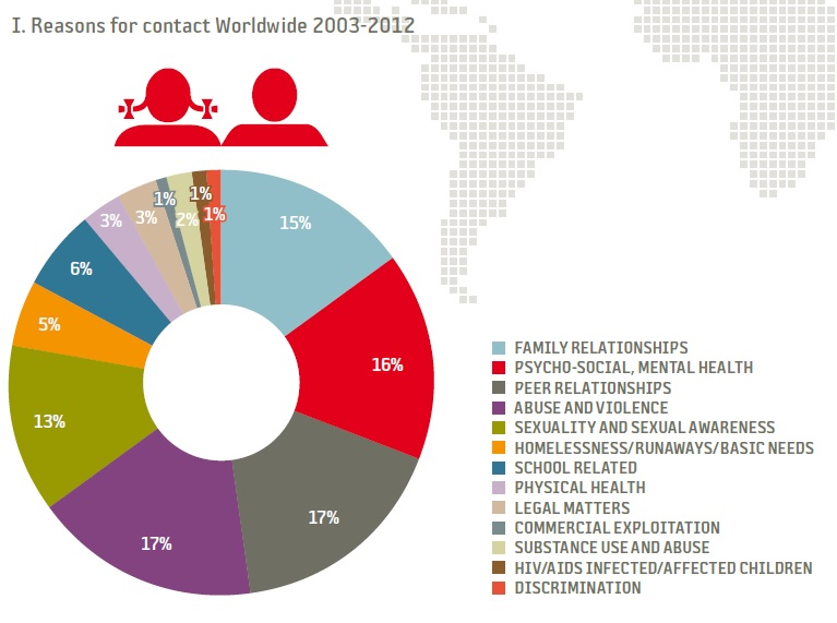 Data of main issues voiced by children and young people when contacting child helplines